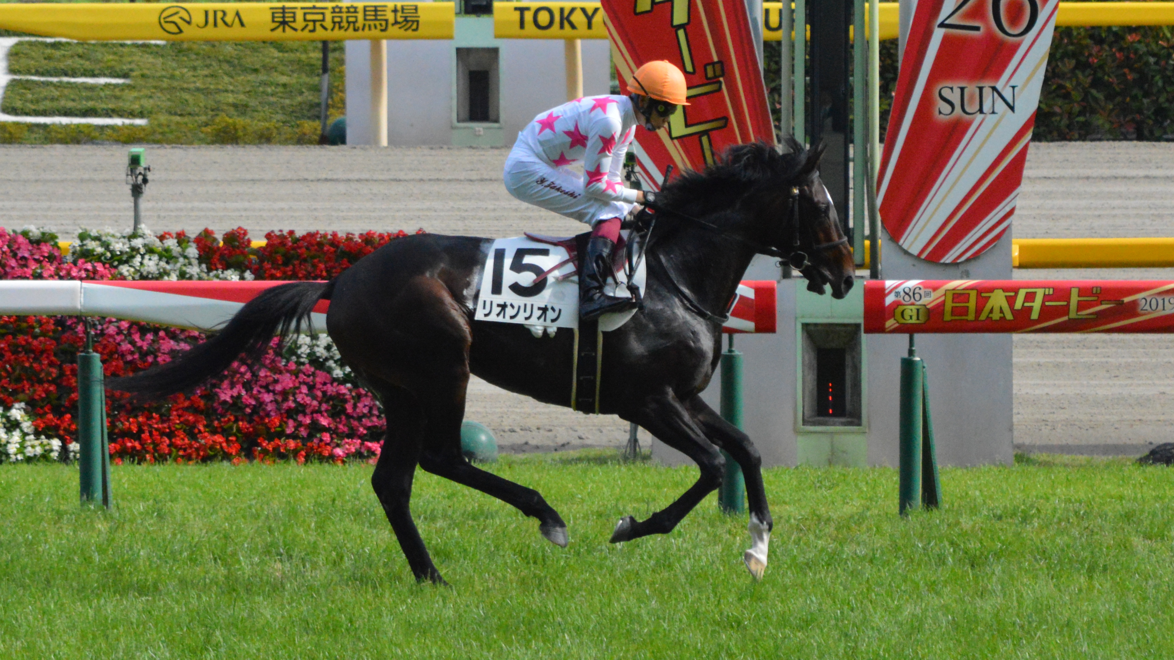 Japanese race horse Lion Lion at Tokyo racecourse. Tokyo (JPN) 26 May 2019Tokyo Yushun (Japanese Derby) (Grade 1) (3yo Colts & Fillies) (Turf) 1m4f Firm RankHorse NameOddsAgeWgtJockeyTrainer1stRoger Barows (JPN)92/1C39-0Suguru HamanakaKatsuhiko Sumii15thLion Lion (JPN)52/1C39-0Takeshi YokoyamaMikio MatsunagaOthers are omitted. (18 horses entered in a race.)